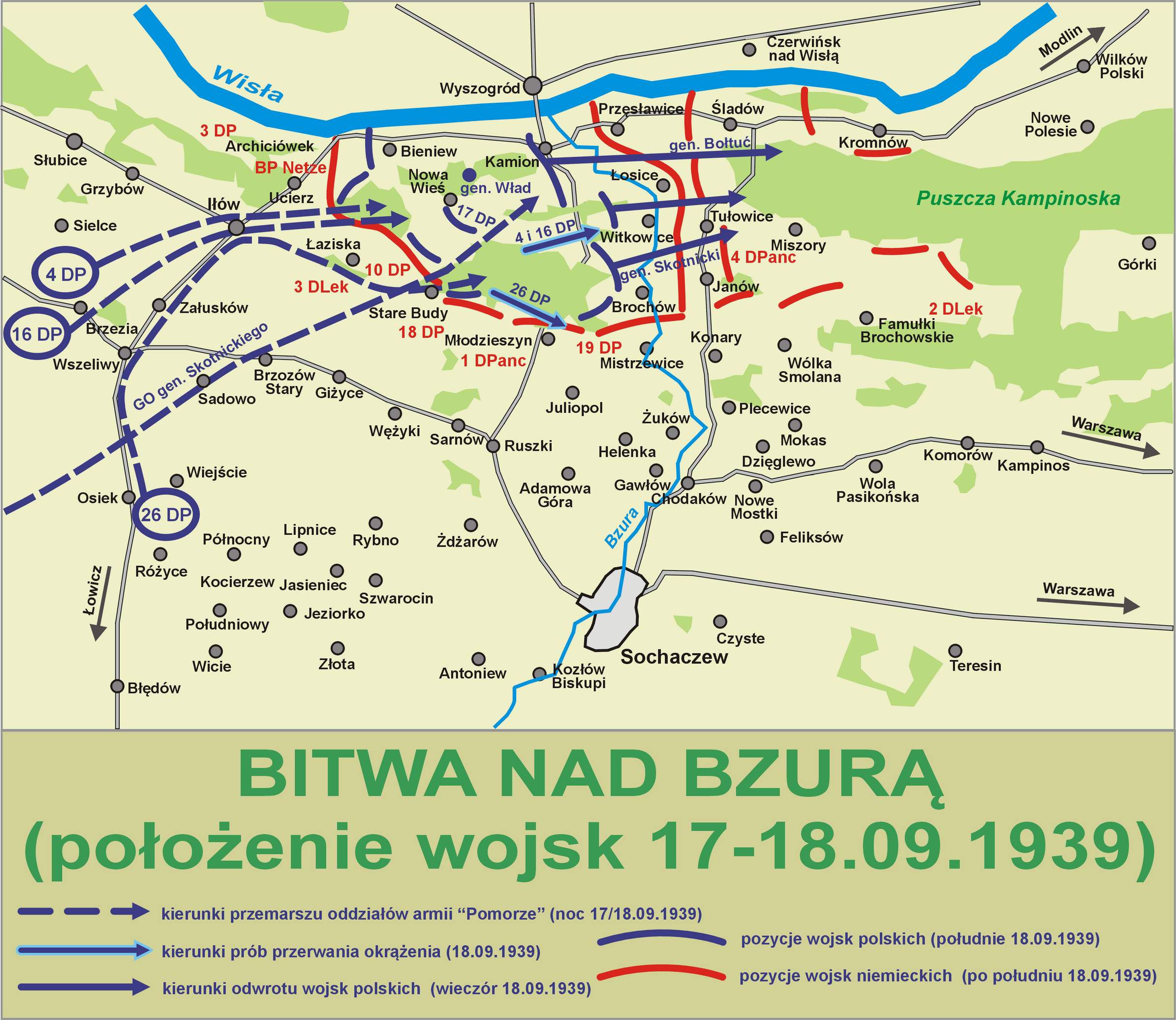 Battle of the Bzura (1939-18-09)